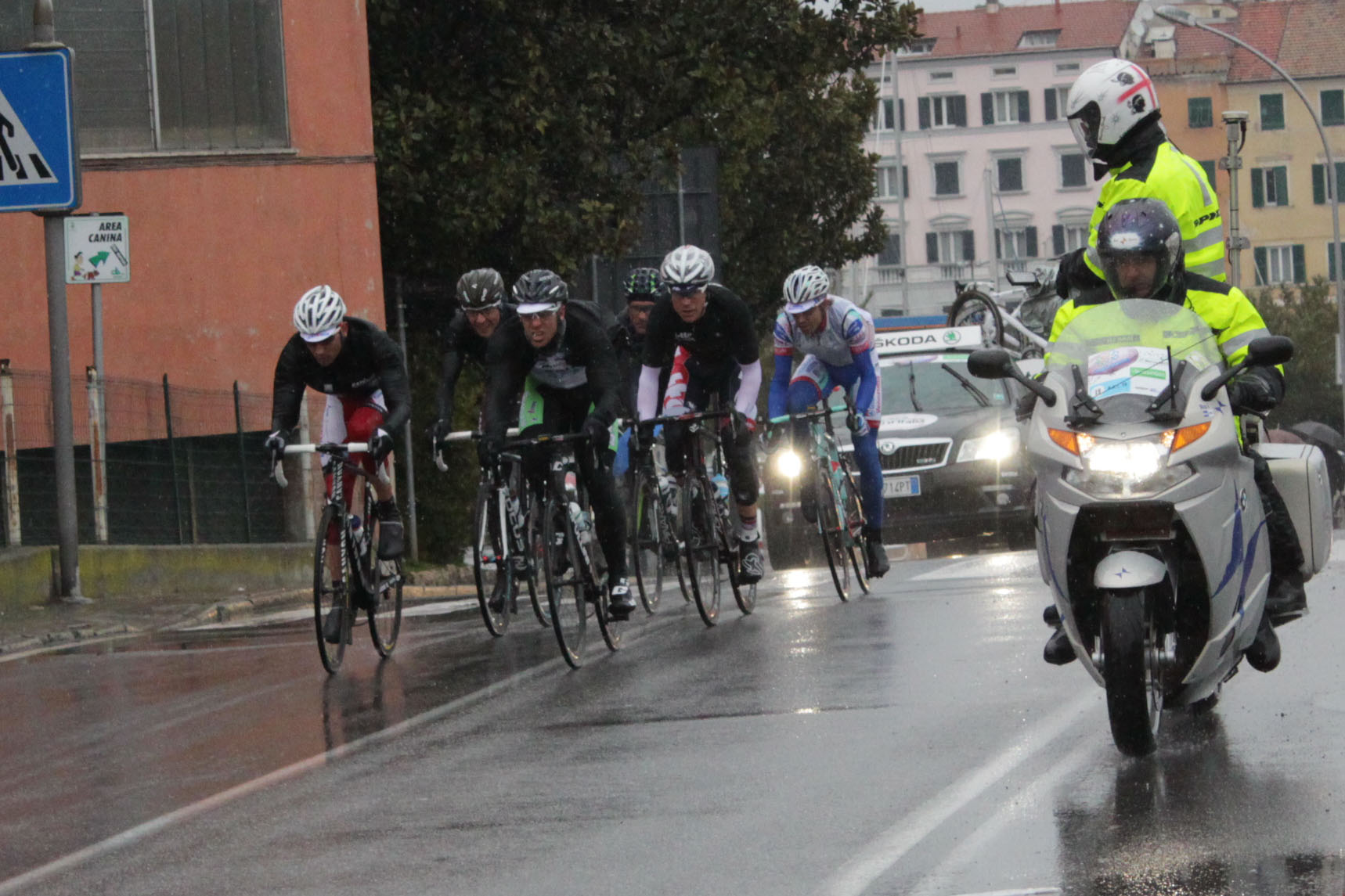 Leaders, Milan-Sanremo 2013, Savona. Maxim Belkov (Katusha), Filippo Fortin (Bardiani Valvole-CSF Inox), Matteo Montaguti (AG2R La Mondiale), Lars Ytting Bak (Lotto-Belisol), Pablo Lastras (Movistar) and Diego Rosa (Androni Giocattoli-Venezuela).